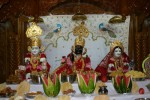 Images at Lakeland Swaminarayan Mandir Licensing Category:Swaminarayan Images